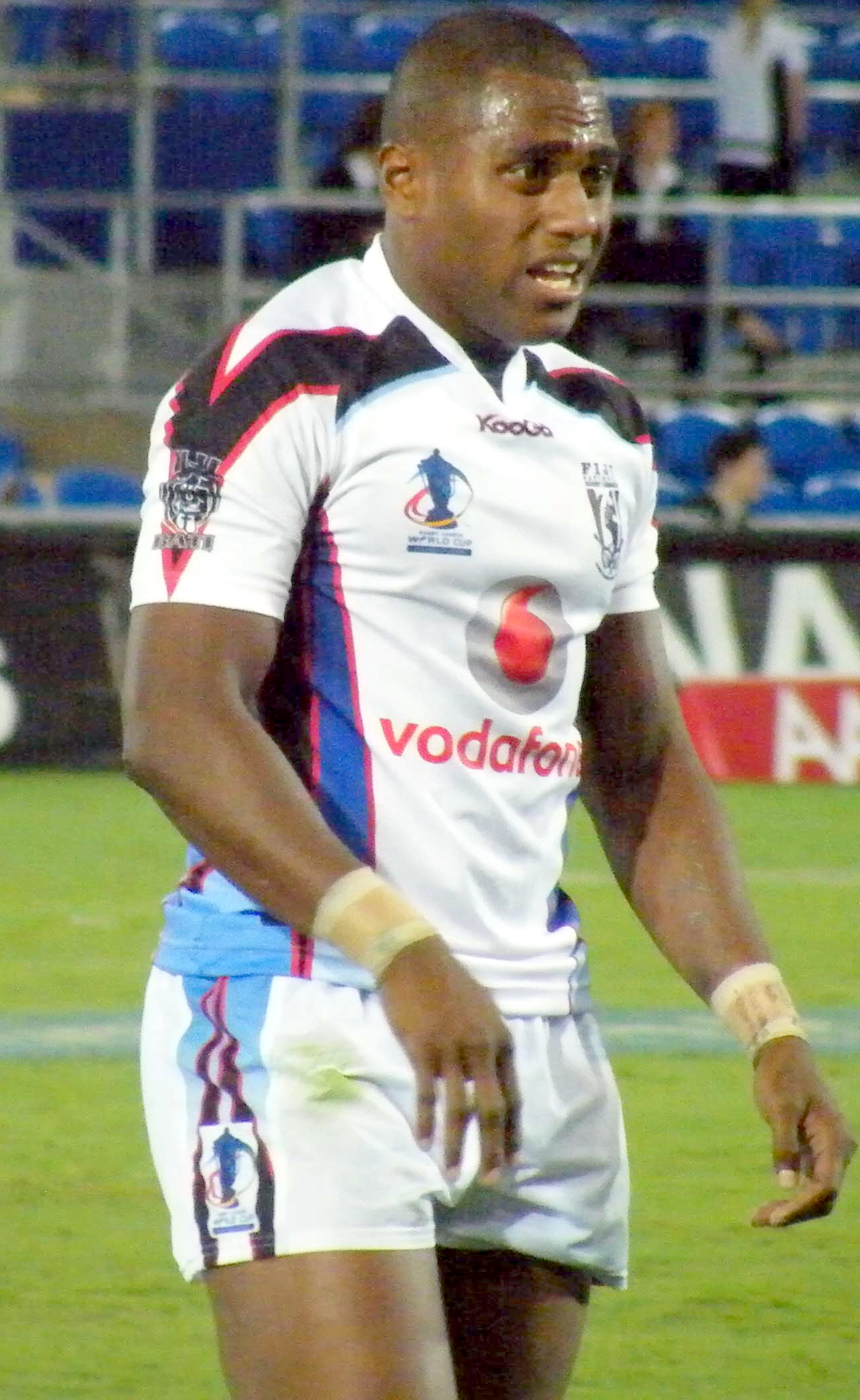 Akuila Uate